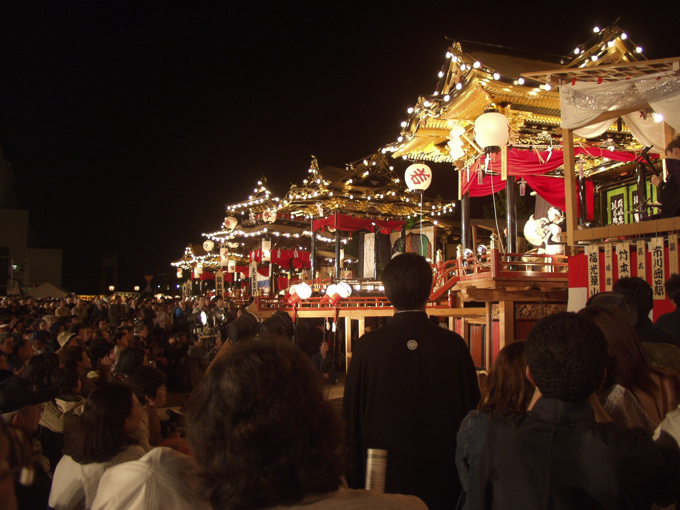 Otabi-Matsuri. The child KABUKI festival in Japan.